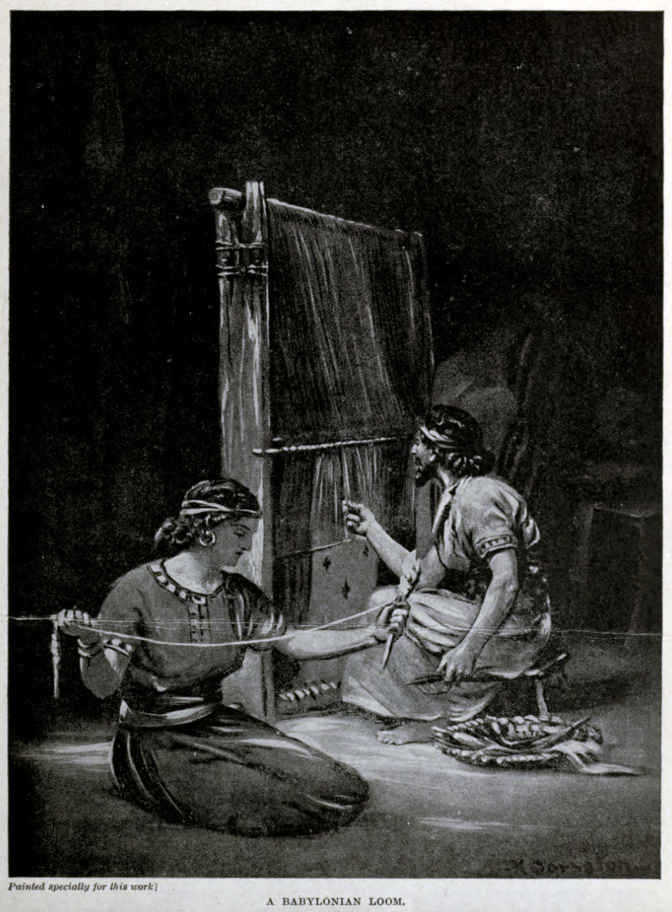 A Babylonian Loom